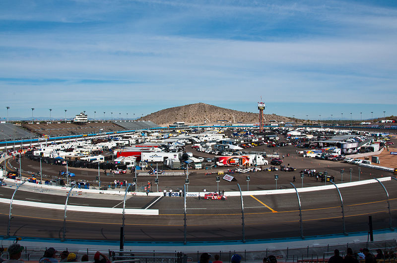 The Phoenix International Raceway on November 10, 2011. The initial point of the Gila and Salt River Meridian is located atop Monument Hill in the background of this picture.